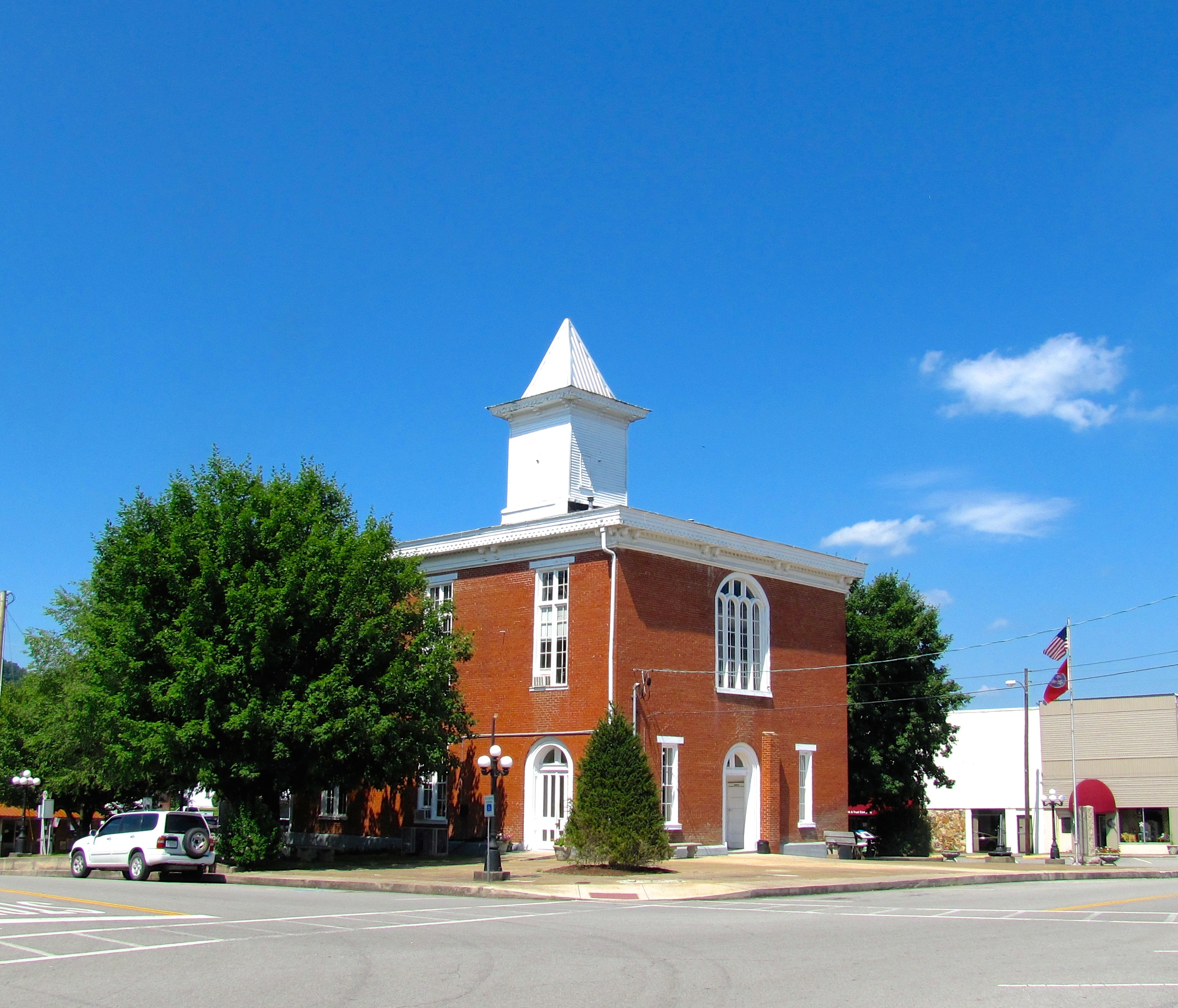 The Clay County Courthouse and the adjacent courthouse square in Celina, Tennessee, United States.